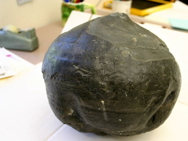 A 42-pound coal ball. (archived)